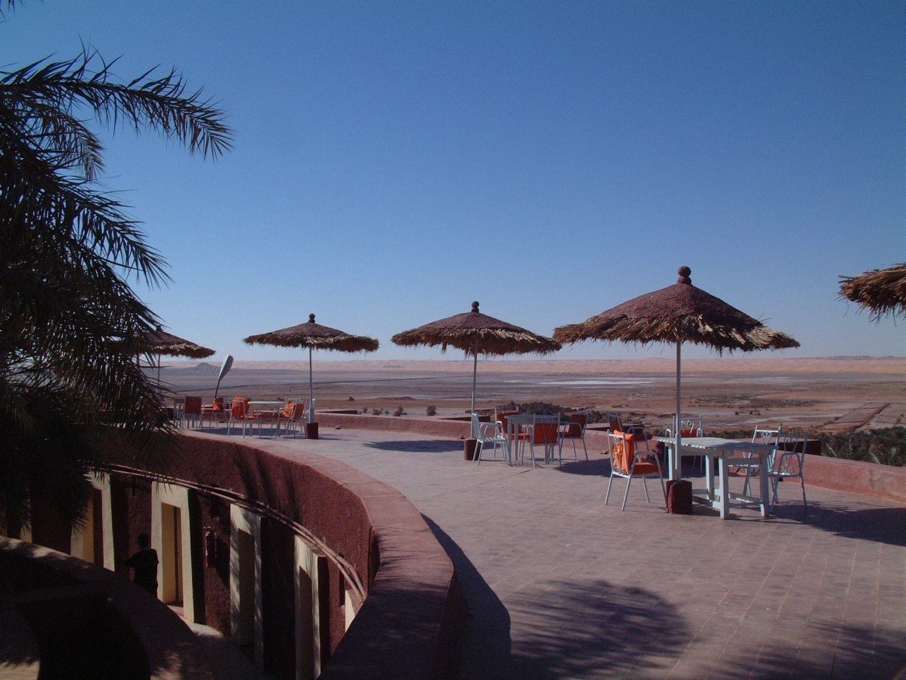 terrace of Gourara hotel, Timimoun, Algeria